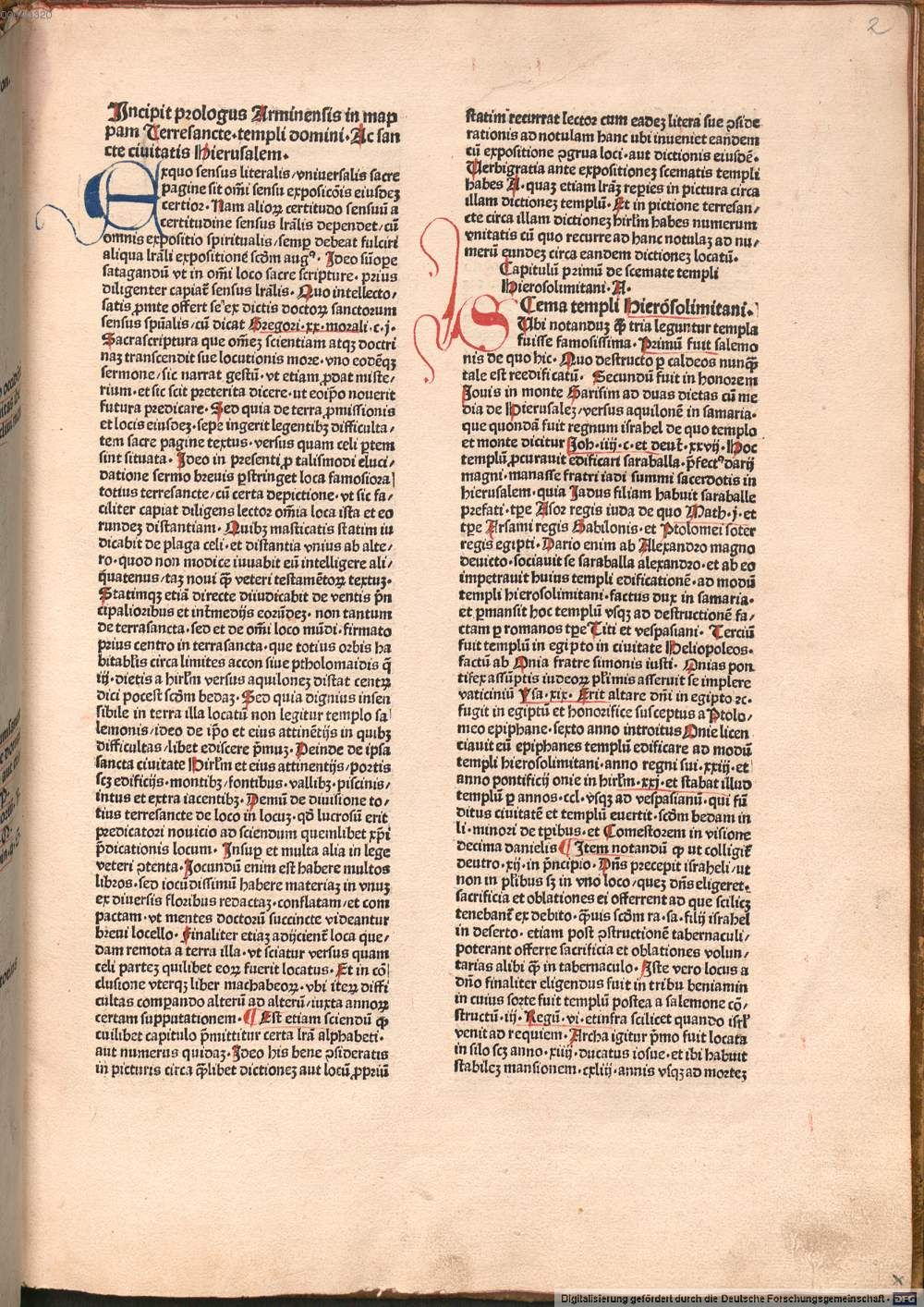 Opening page of Prologus Arminensis in Bavarian State Library